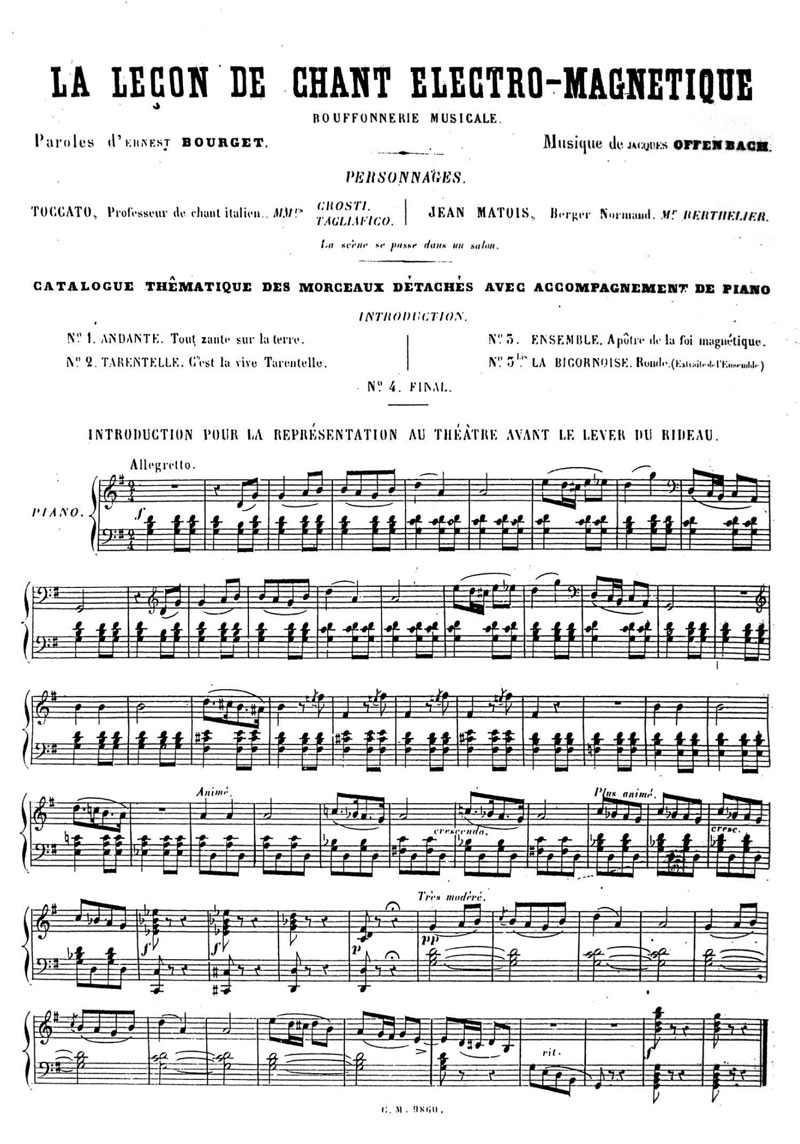 La Lecon de chant éléctromagnétique, vocal score, first page, 1863